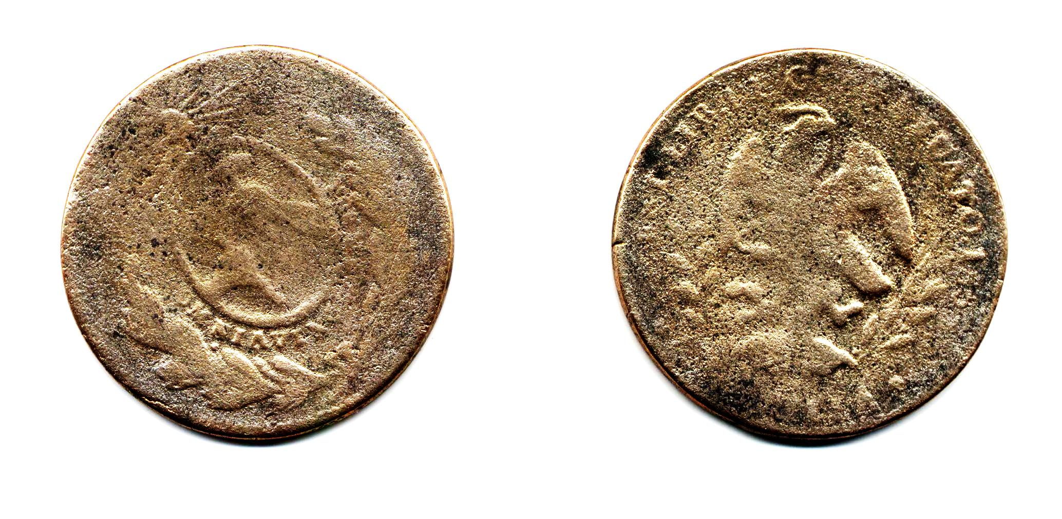 Moneda de 1/4 de real acuñada en latón en el Estado de Guanajuato, México en 1856.